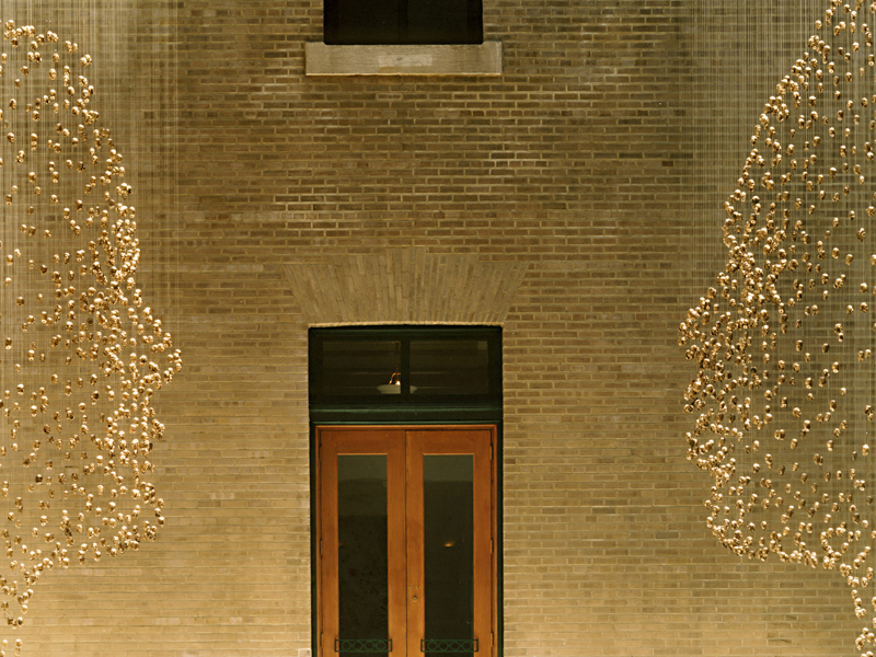 "Jurisprudents" by Ralph Helmick and Stuart Schechter (2000), image by Will Howcroft